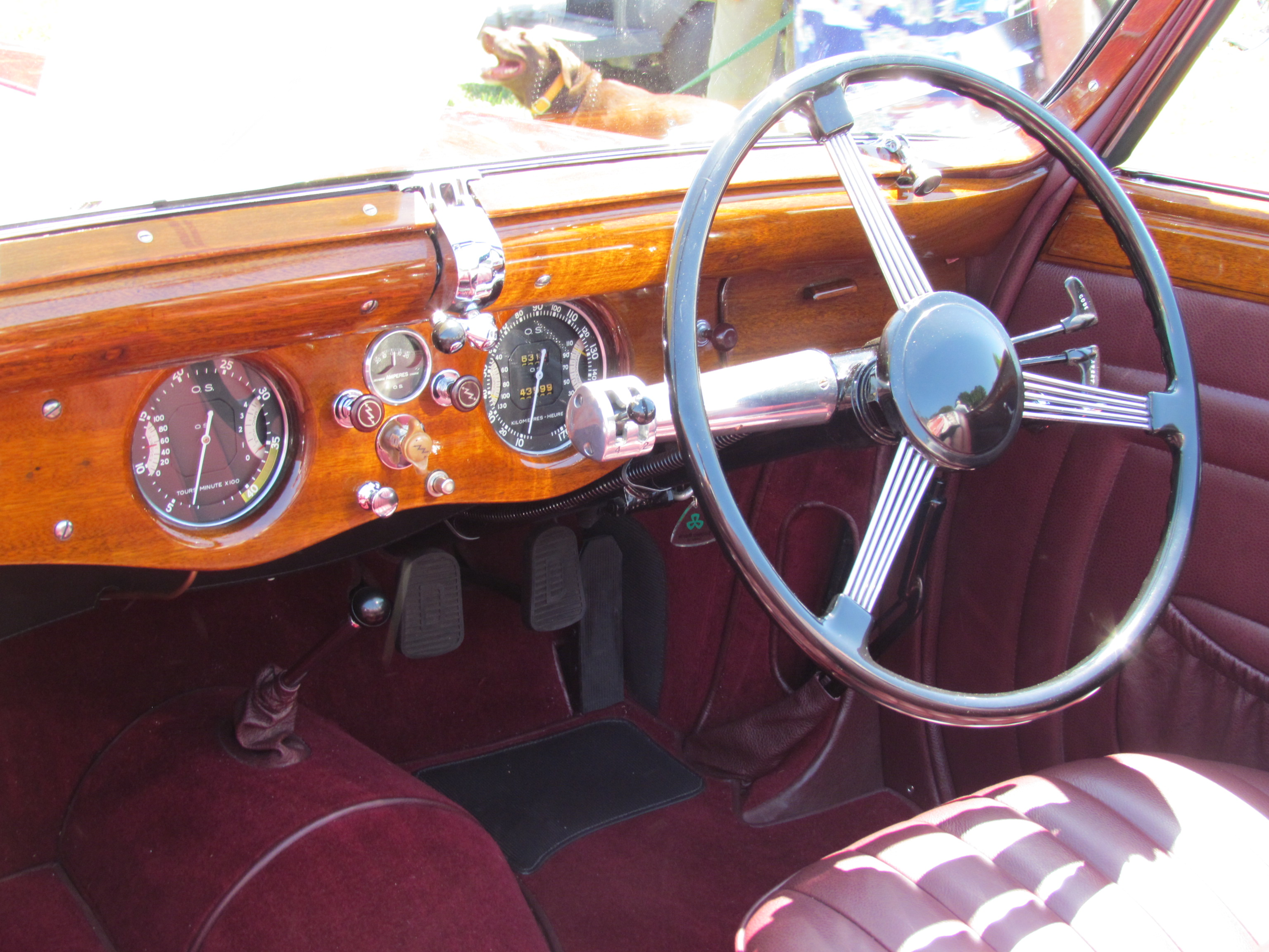 1947 Delahaye 135M Cabriolet, coachwork by Pennock